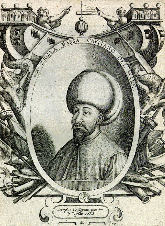 Cigalazade Pasha, italian regenade and ottoman Grand Vizier, died 1604